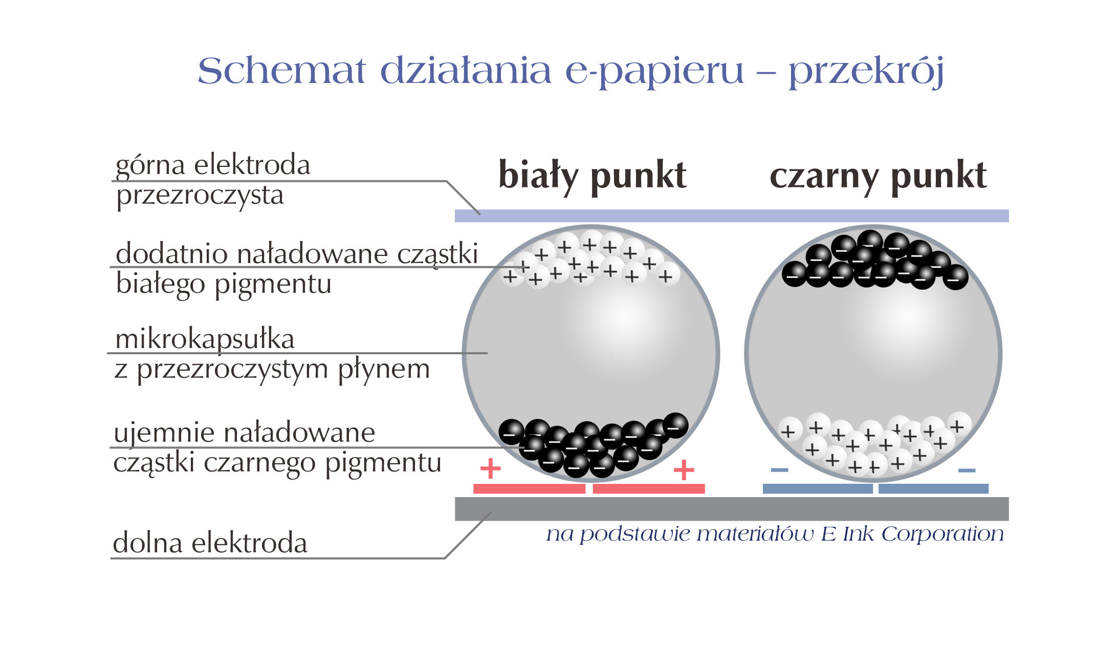 E-ink, e-paper, electrophoretic display